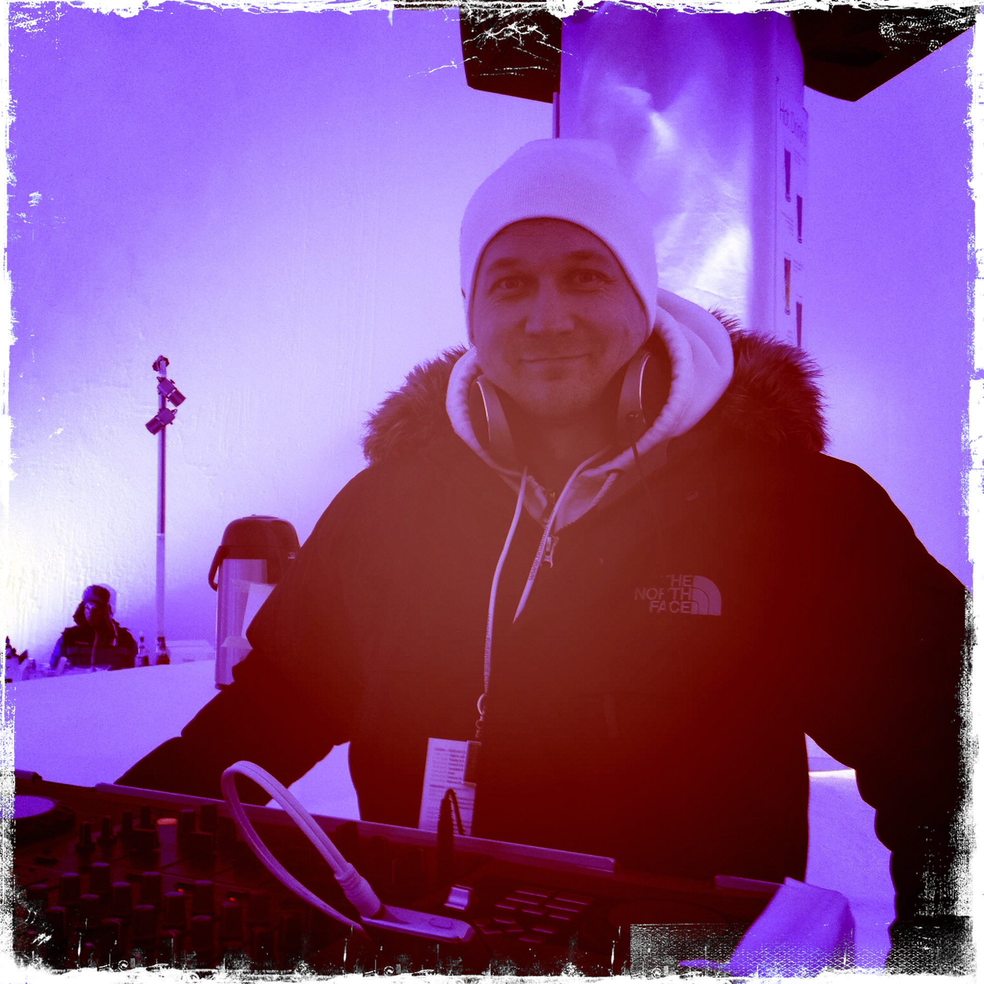 Dj Slow DJing at the Snow Village, Levi, Finland. Hot beats with cold feet...